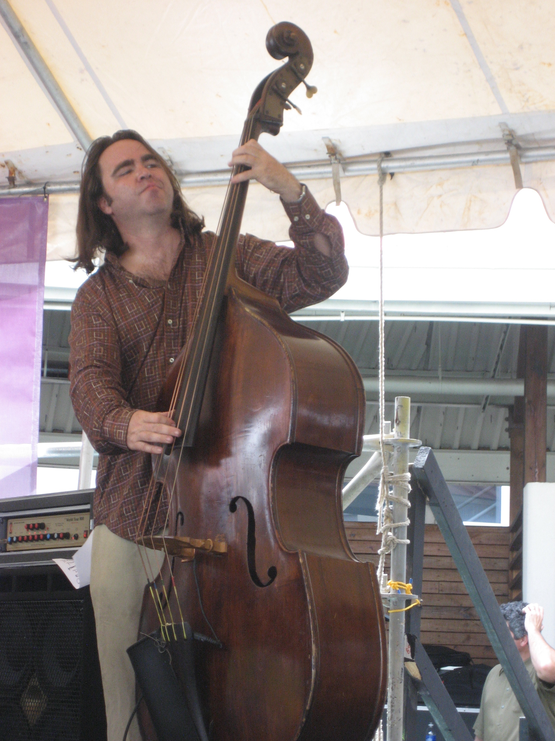 Matt Perine playing string bass at New Orleans Jazz & Heritage Festival 2009